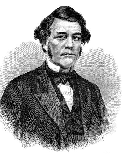 Engraving of Bishop Calvin Kingsley (1812–1870)